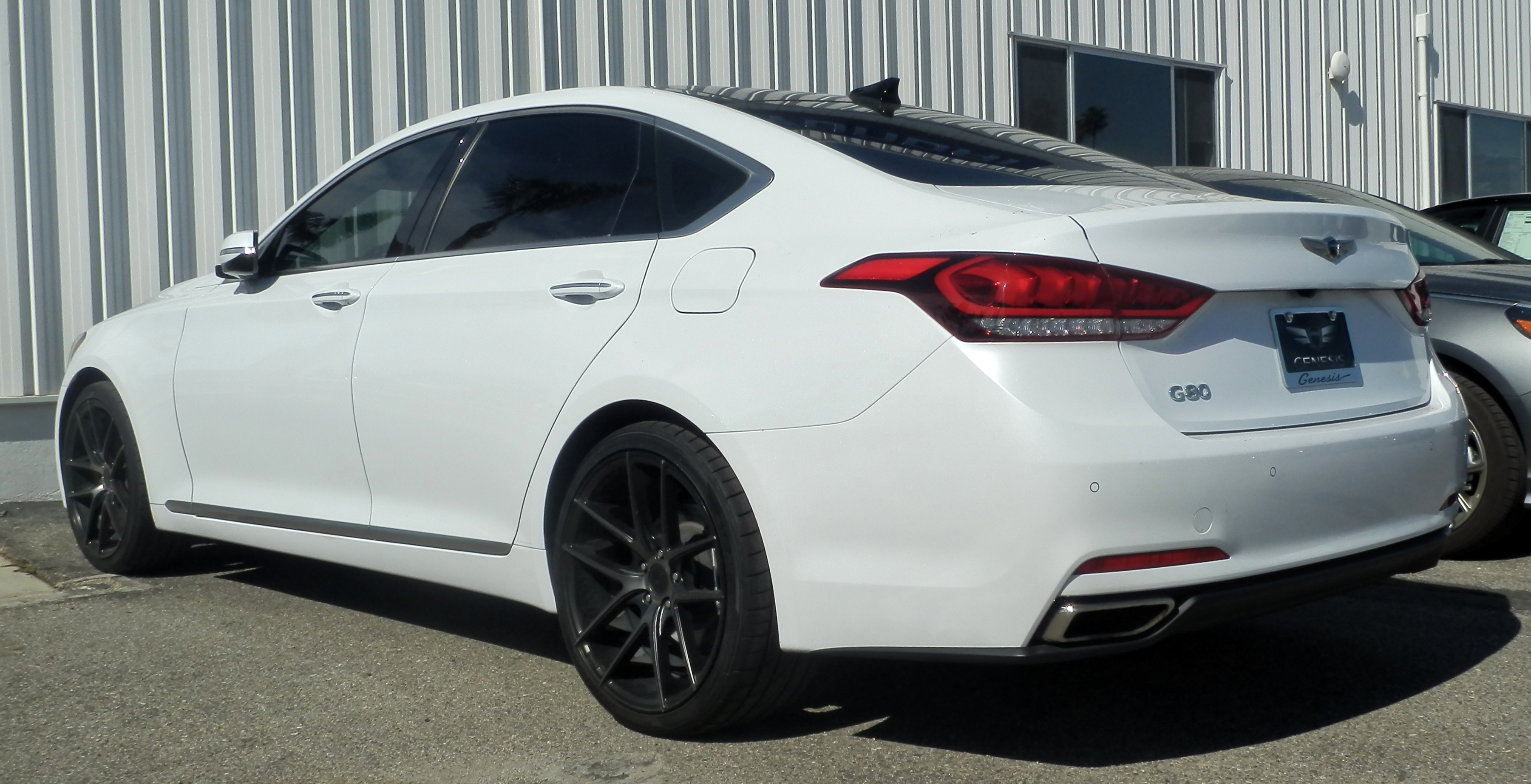 Genesis G80 in Bakersfield